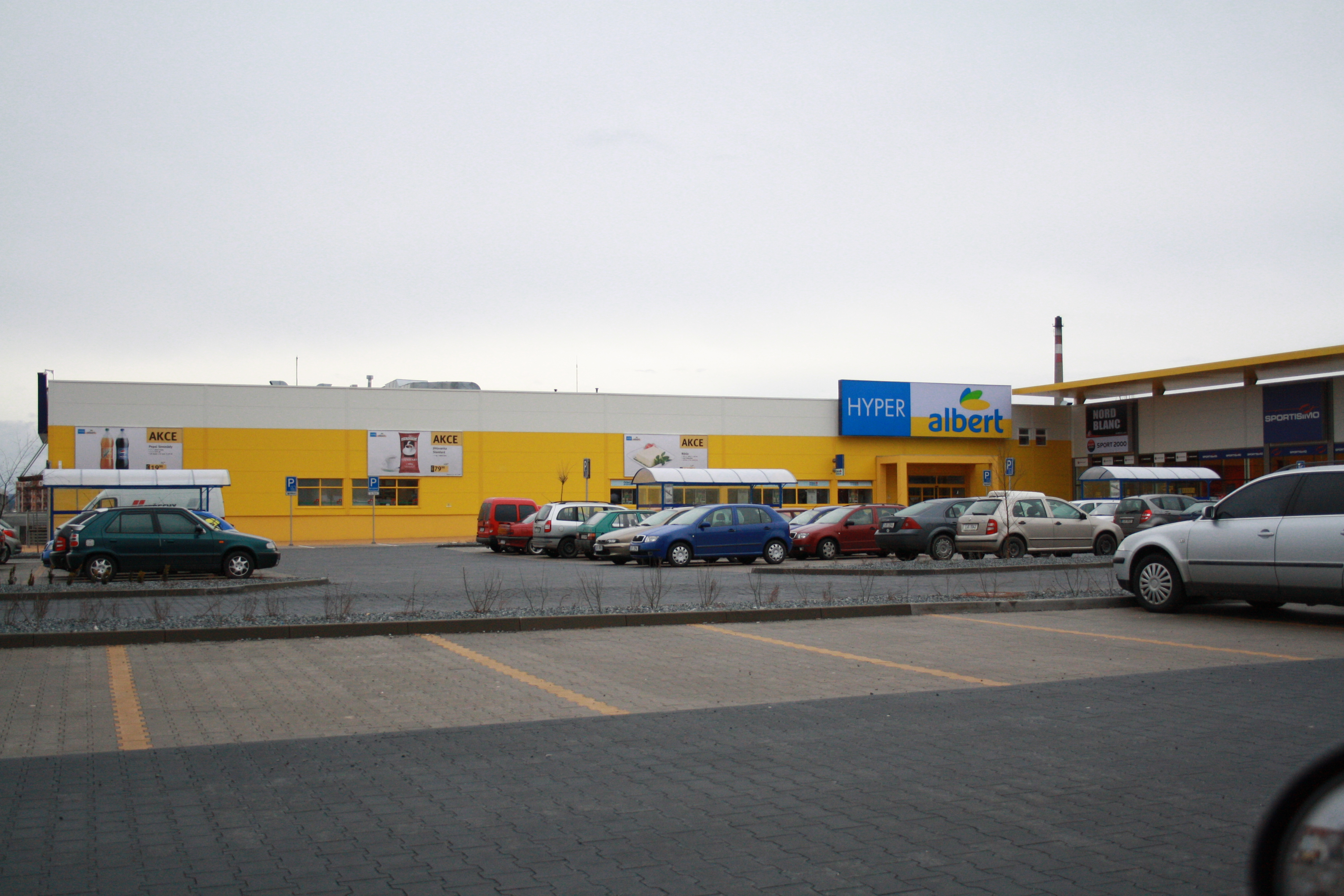 Hyper Albert supermarket in Třebíč, Czech Republic.